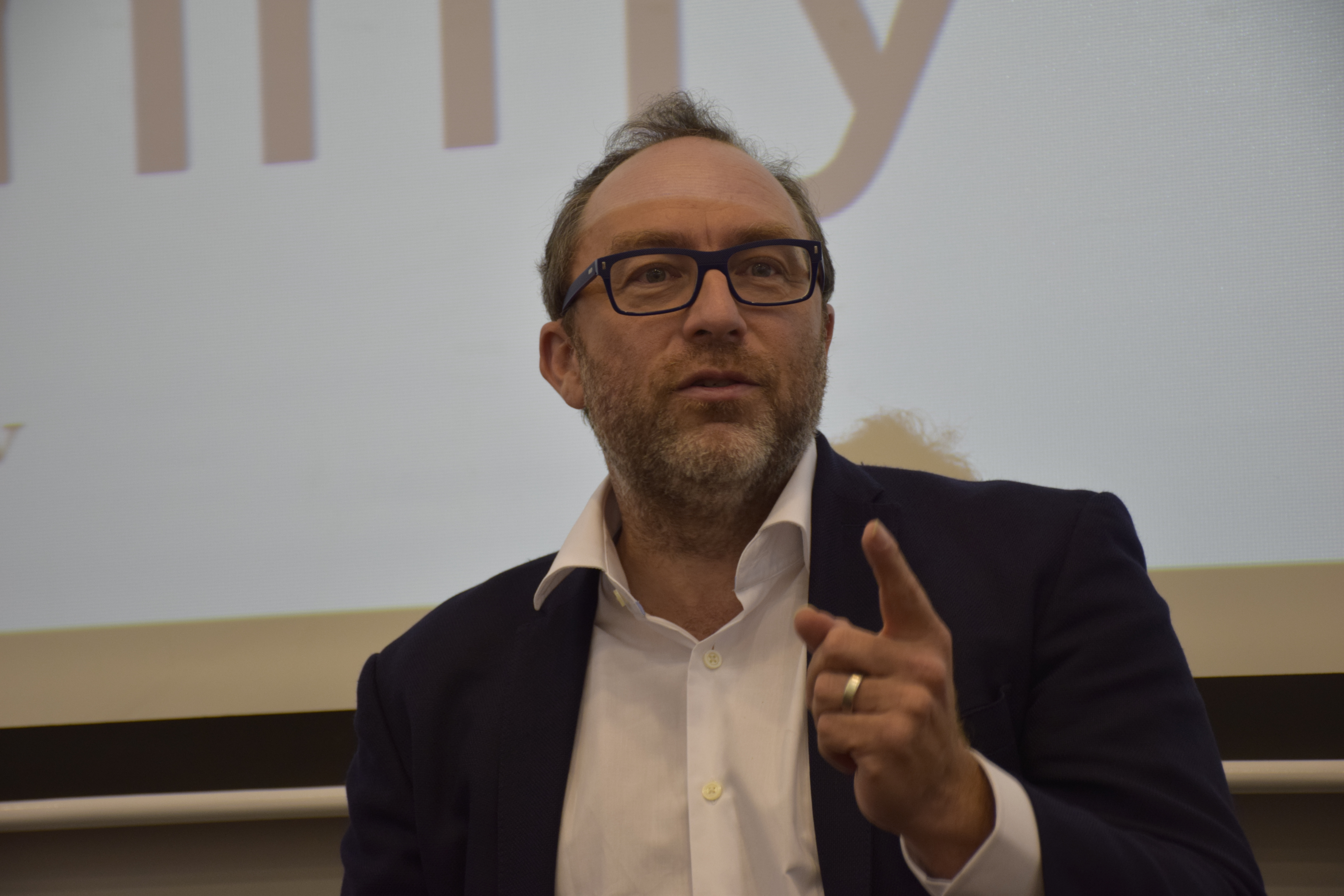 WMIL Community meeting with Jimmy Wales 19.5.2015